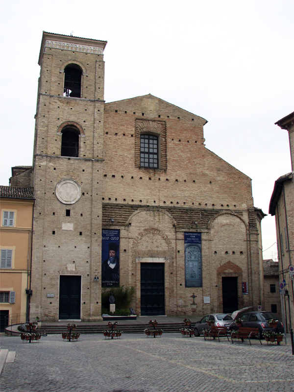 Duomo, Macerata, Italy in 2010